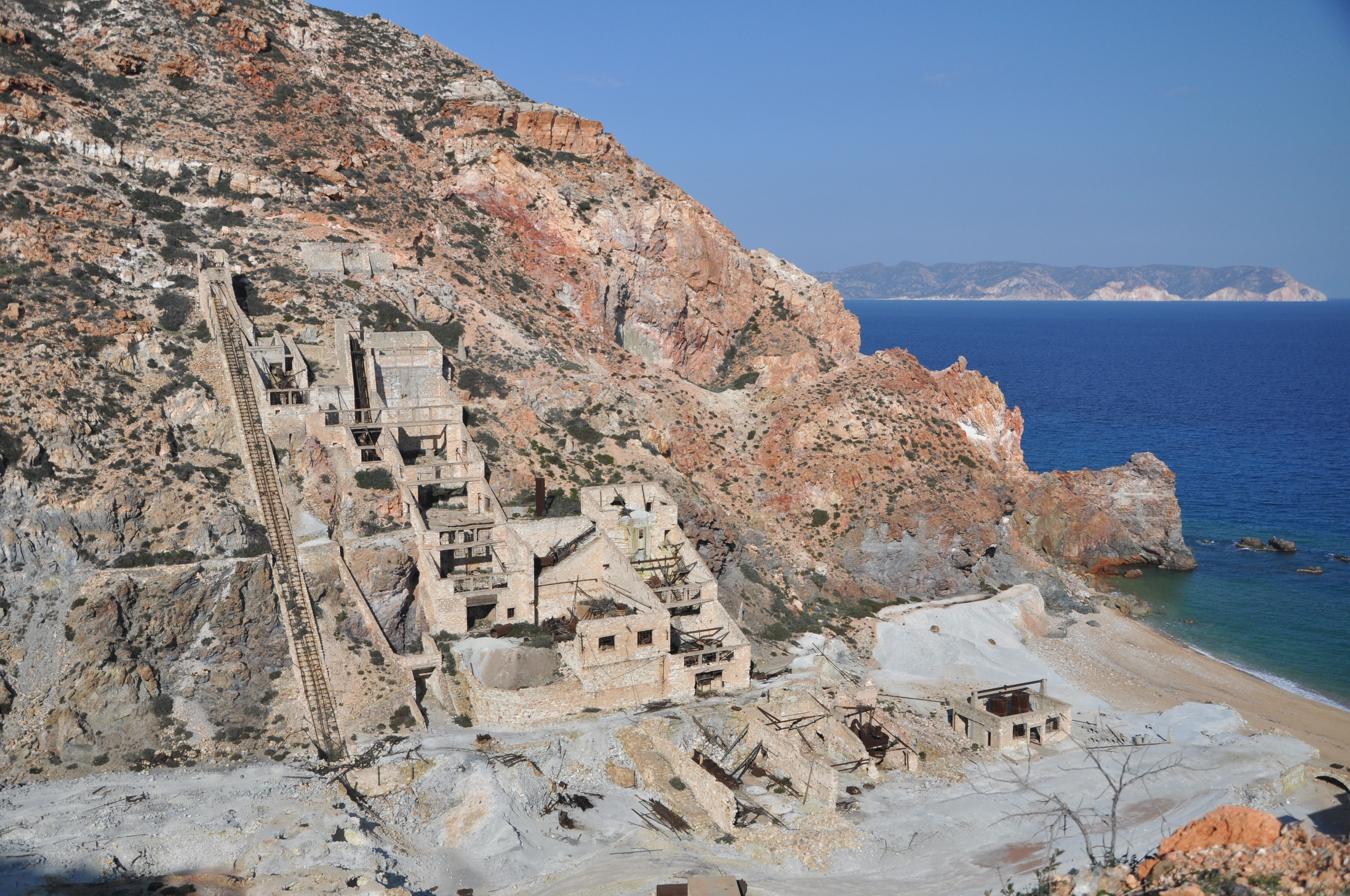 Sulfur mines in Milos